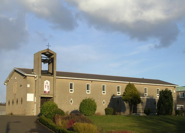 St Jaochim's Roman Catholic Church, Carmyle, Glasgow, Scotland. Gillespie, Kidd & Coia, 1954.